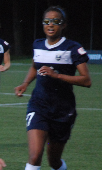 Lindsay Taylor (Seattle Reign FC) at Starfire Stadium on May 16, 2013